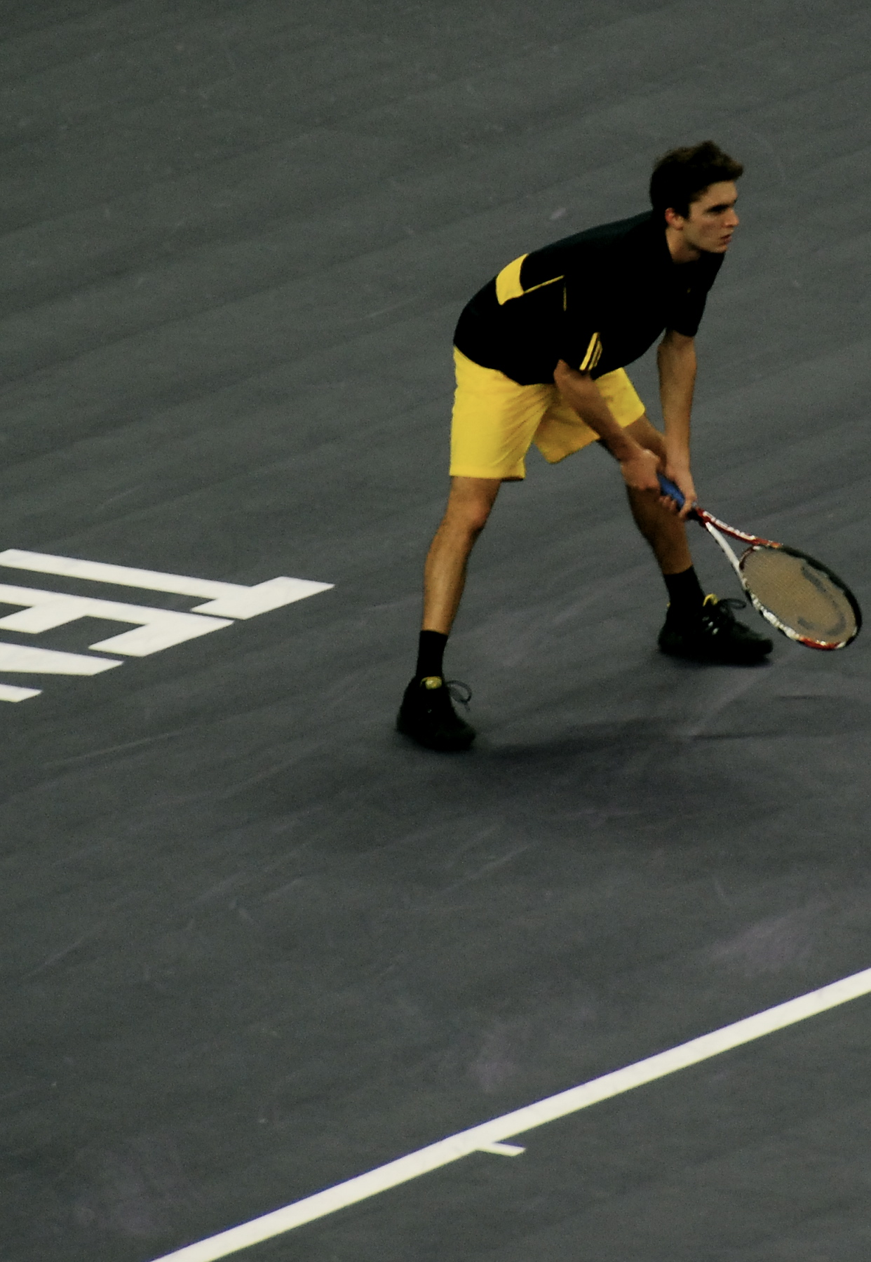 Gilles Simon against Radek Stepanek at the 2008 Tennis Masters Cup